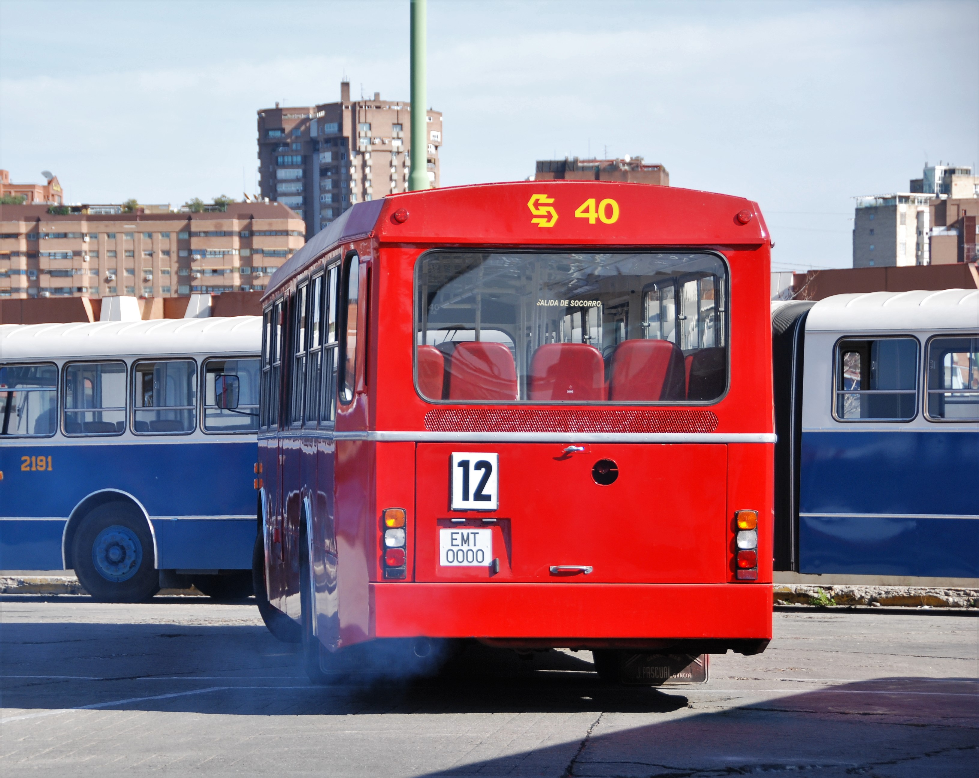 Rear view of the Pegaso 6050 bus preserved by the Madrid EMT and the Asociación de Amigos de la EMT y del Autobús, in Fuencarral garage.